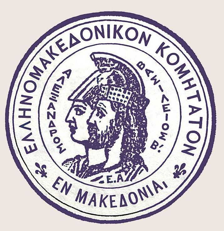 Seal of the Greek-Macedonian Committee during the Greek Struggle for Macedonia, depicting Alexander the Great and Emperor Basil II.